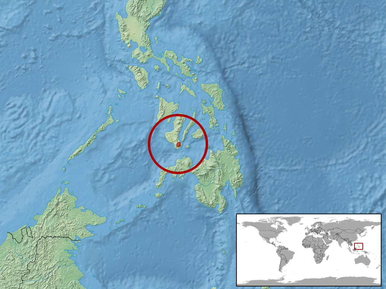 geographic distribution of Lipinia rabori